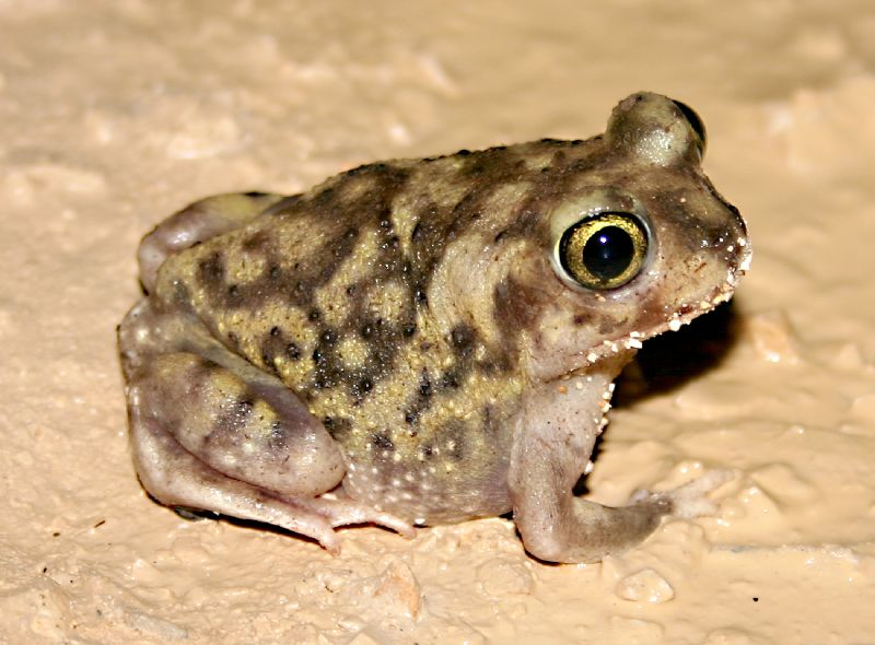 Couch's Spadefoot Toad (Scaphiopus couchii), Amistad National Recreational Area, Del Rio, Texas, USA